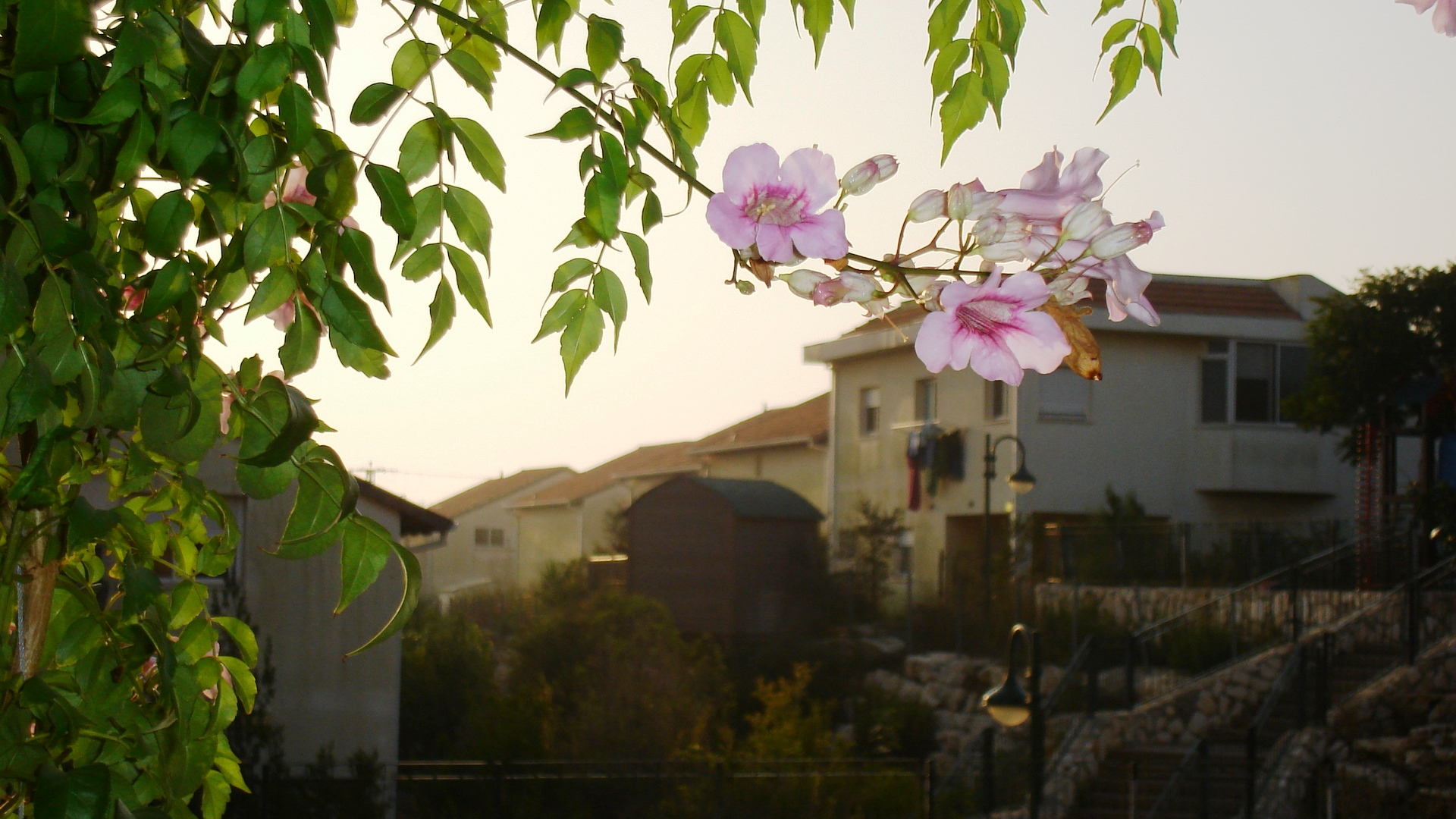 Bloom in Tal Menashe